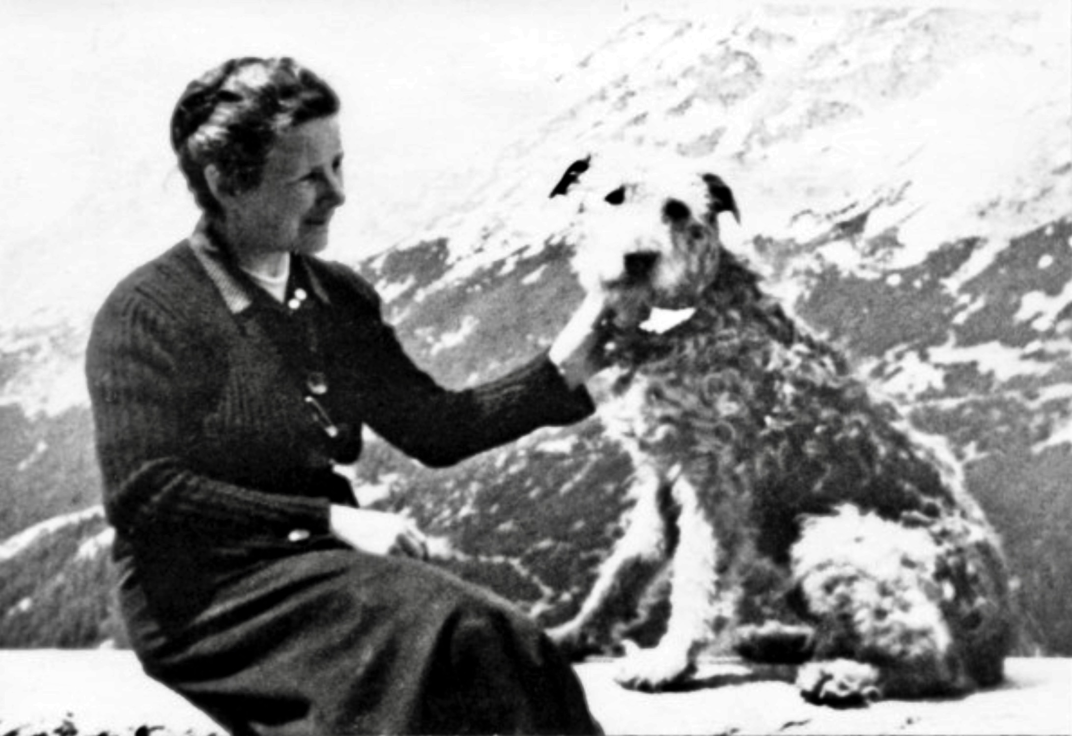 Archive signature DAV NAS 23 FF/1463/0 Creszentia Sild, née von Ficker (1878–1956)